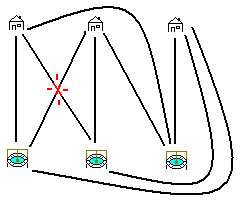 Made by Romero Schmidtke